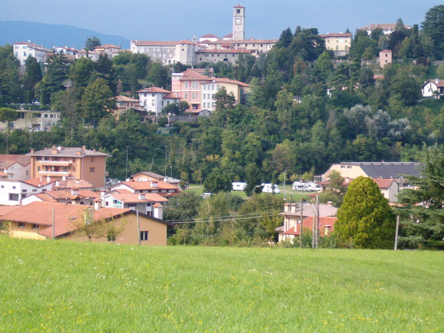 A view of San Daniele del Friuli.